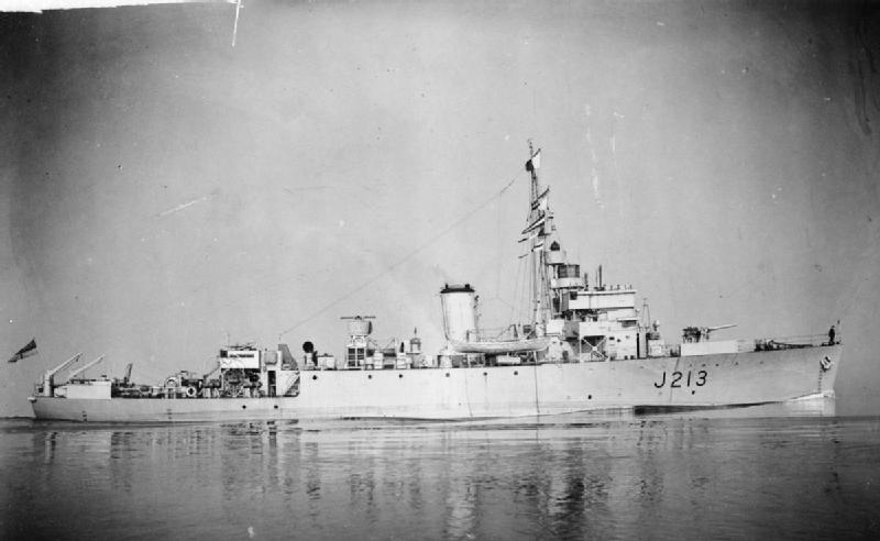 HMS Algerine Underway, at sea.